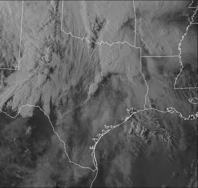 Satellite image of supercell thunderstorms associated with a major storm complex that affected the central United States over the state of Texas late on April 29, 2017 at 23:30 UTC. One of these storms produced a massive wedge tornado which devastated the town of Canton, Texas, killing 4.